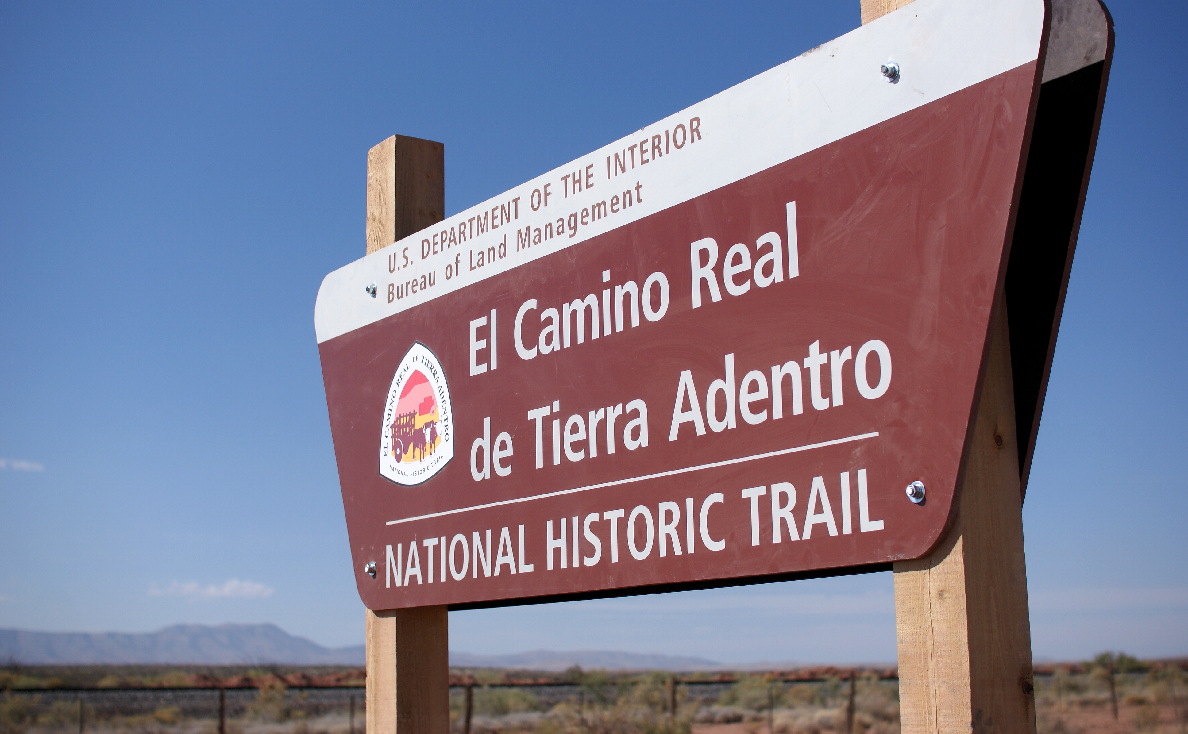 The Yost Escarpment Trailhead sign, just off of Upham Road east of Truth or Consequences, New Mexico, and a mile south of Spaceport America. The El Camino Real de Tierra Adentro (Spanish for "The Royal Road of the Interior Land") is an ancient travel route between Santa Fe and Mexico City, whose use started in the late 16th century. The portion that travels through New Mexico passes through an arid desert known as the Jornada del Muerto (Spanish for "Journey of the Dead Man"), within which was recently created a National Historic Trail. Portions of this trail are open for hiking.